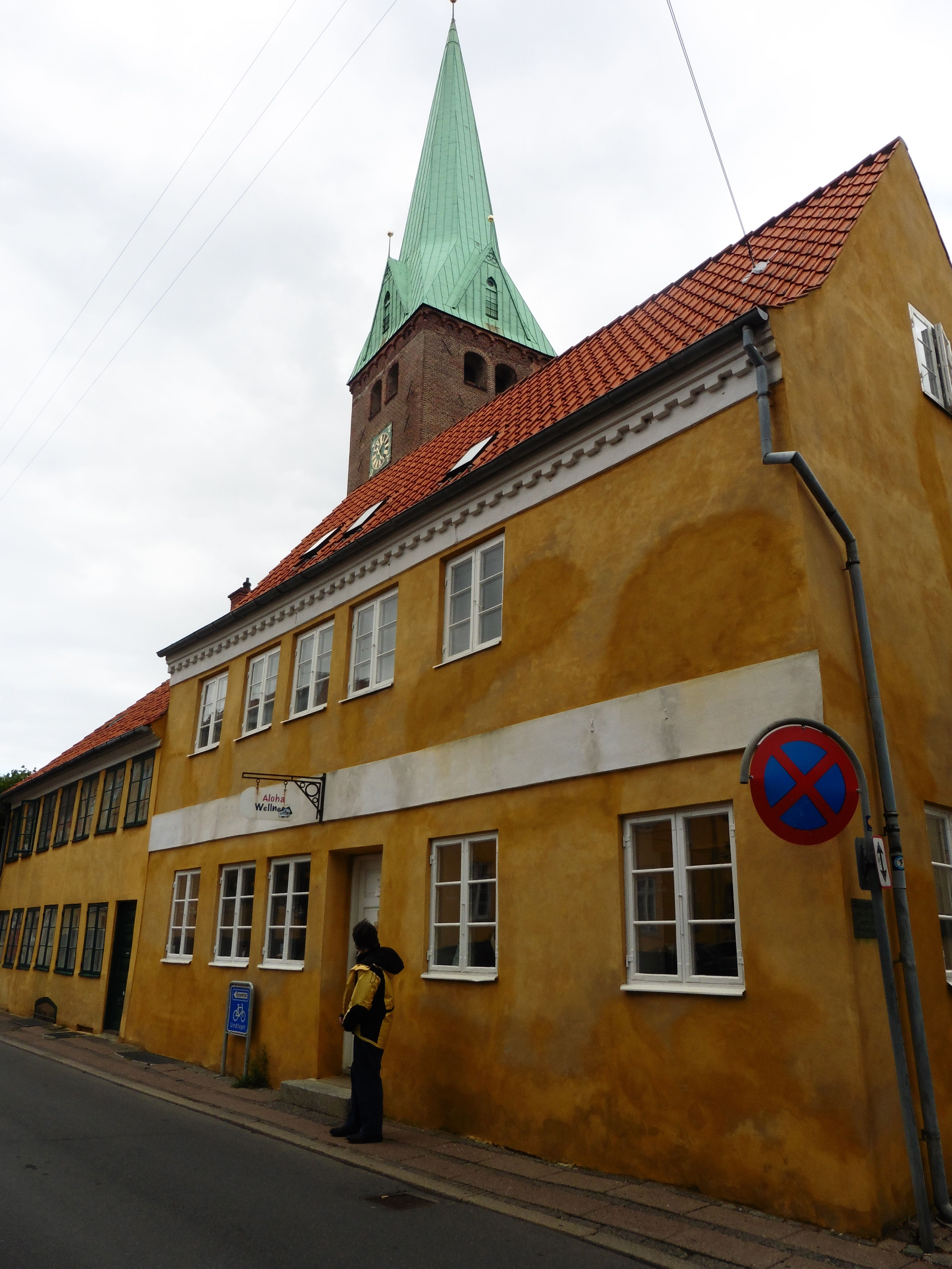 This is the house that Buxtehude lived in when he was organist at St. Mary's in Helsingør, Denmark. The spire of St. Mary's is in the background.